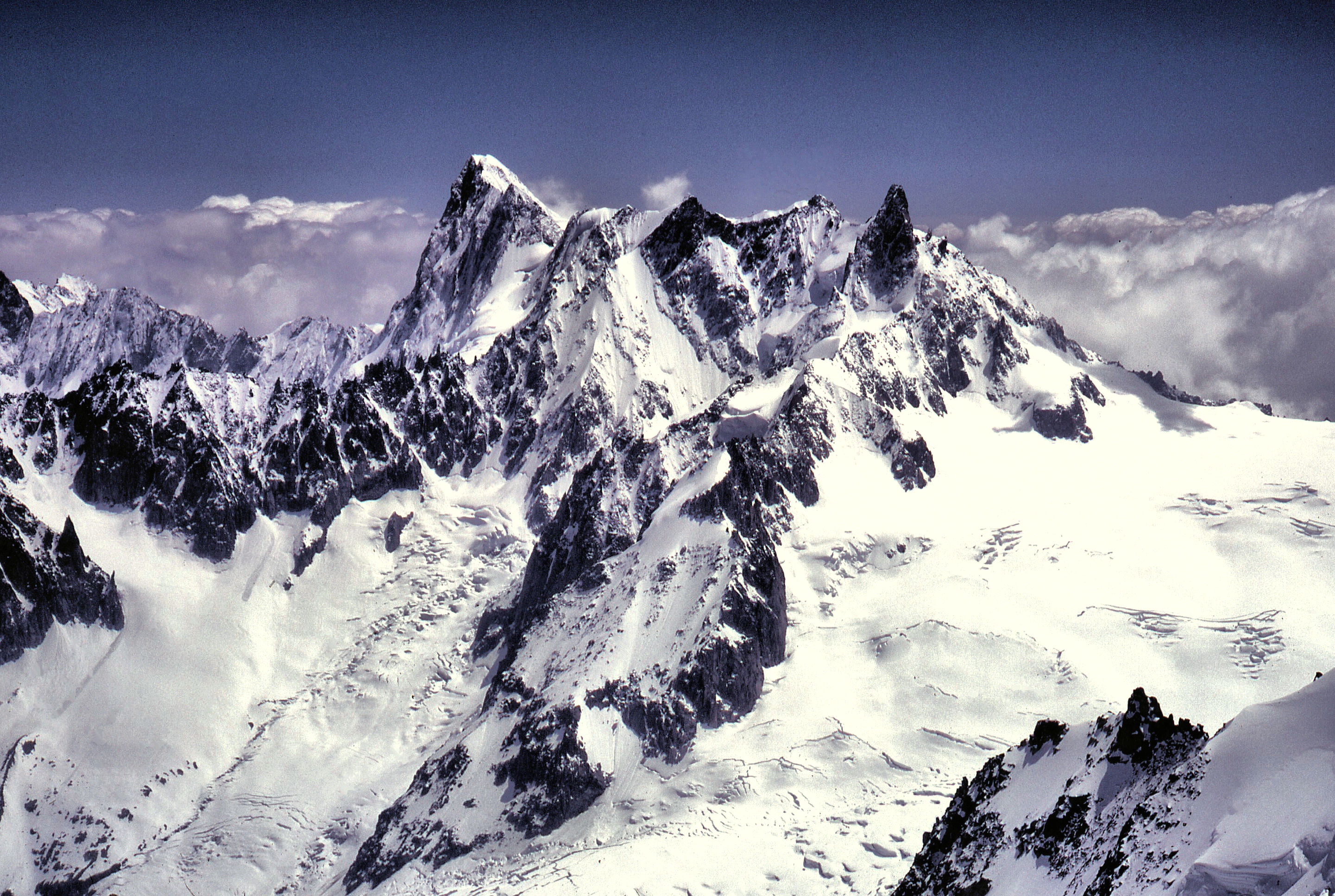 The Grandes Jorasses (4208 m) and Dent du Geant (4103 m), near Chamonix, France. The Grandes Jorasses is the (apparent) highest of the peaks in the picture, one third of the way across the picture from the left hand side. The Dent du Geant (4103 m) is the dark “tooth” on the right of the range (about one third in from the right of the picture). I believe the central dark peak is Mont Mallet (3989 m) and the ill-defined “peak” between Mont Mallet and the Dent du Geant is the Aiguille de Rochefort.